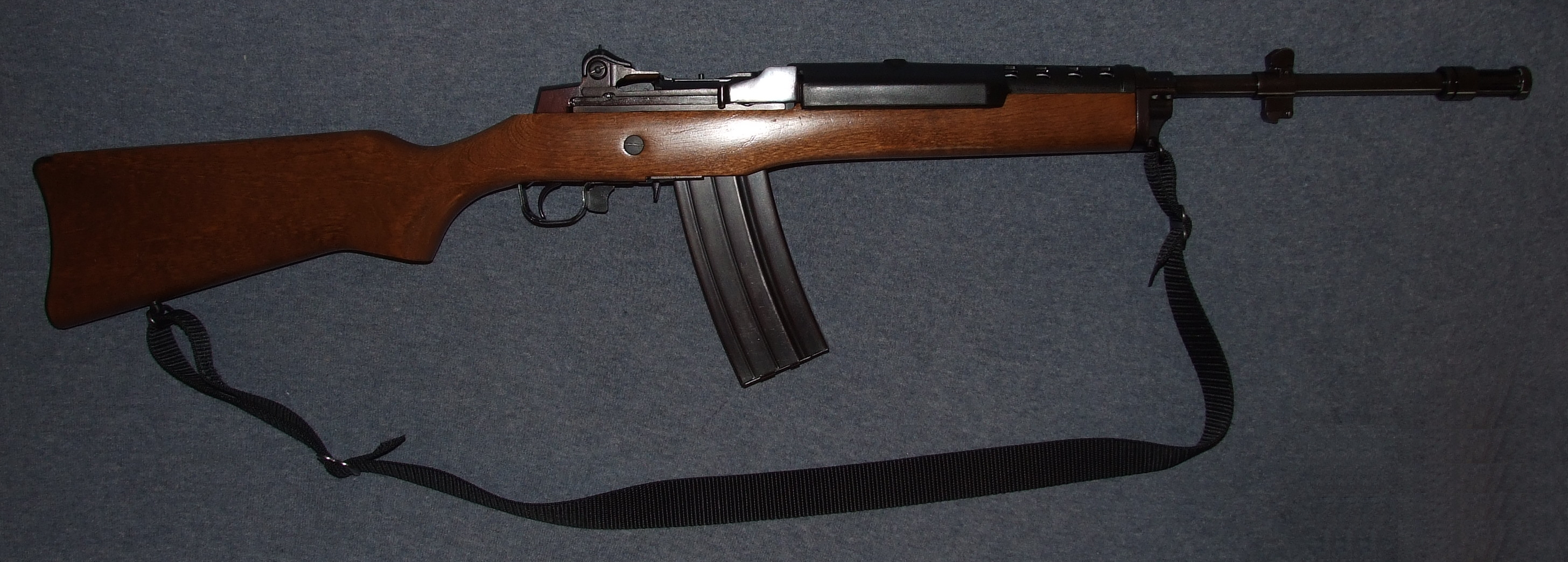 Ruger Mini-14 Government rifle